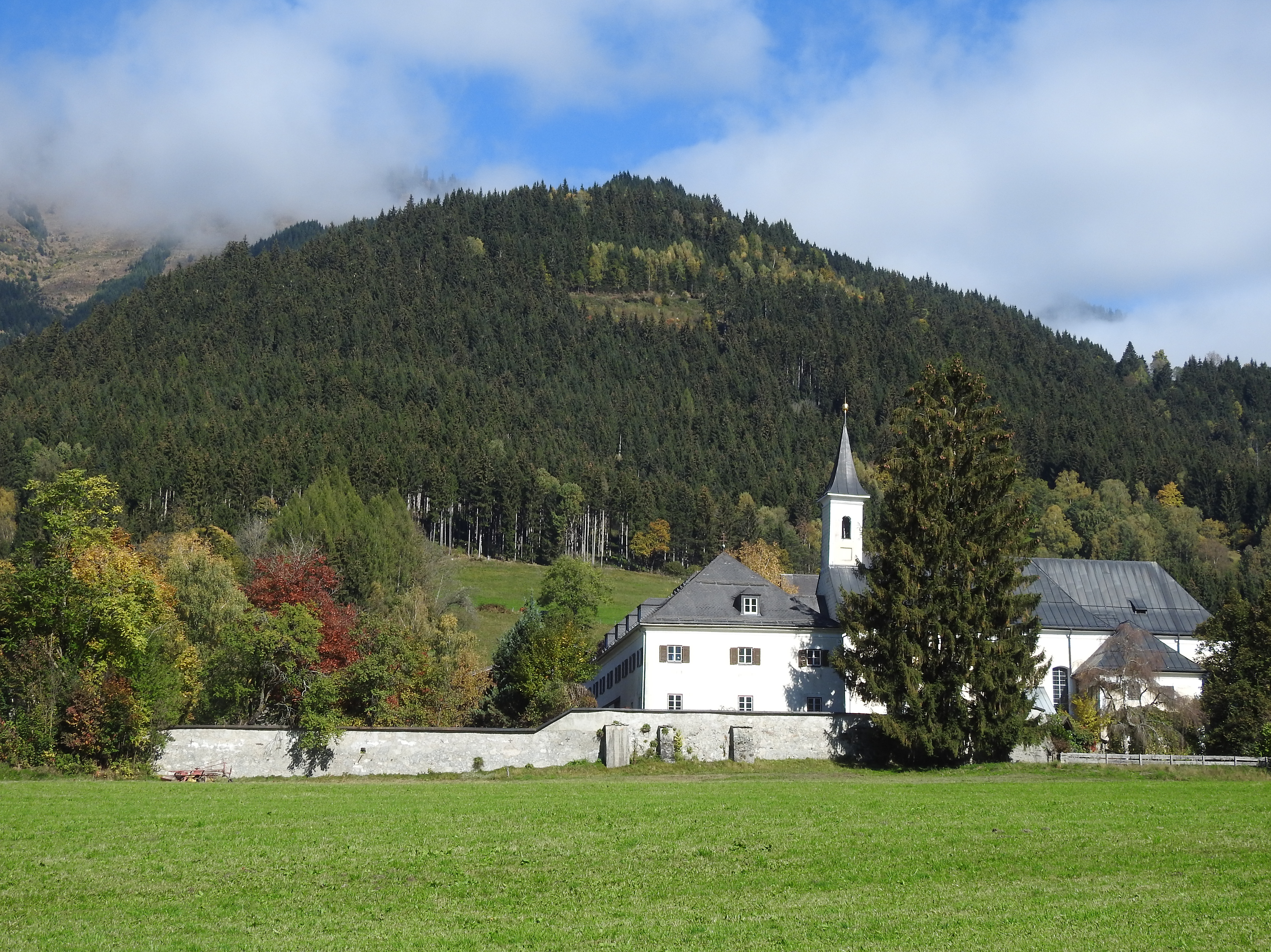 Caritas Village St. Anton in Bruck an der Großglocknerstraße, Salzburg (state), Austria.